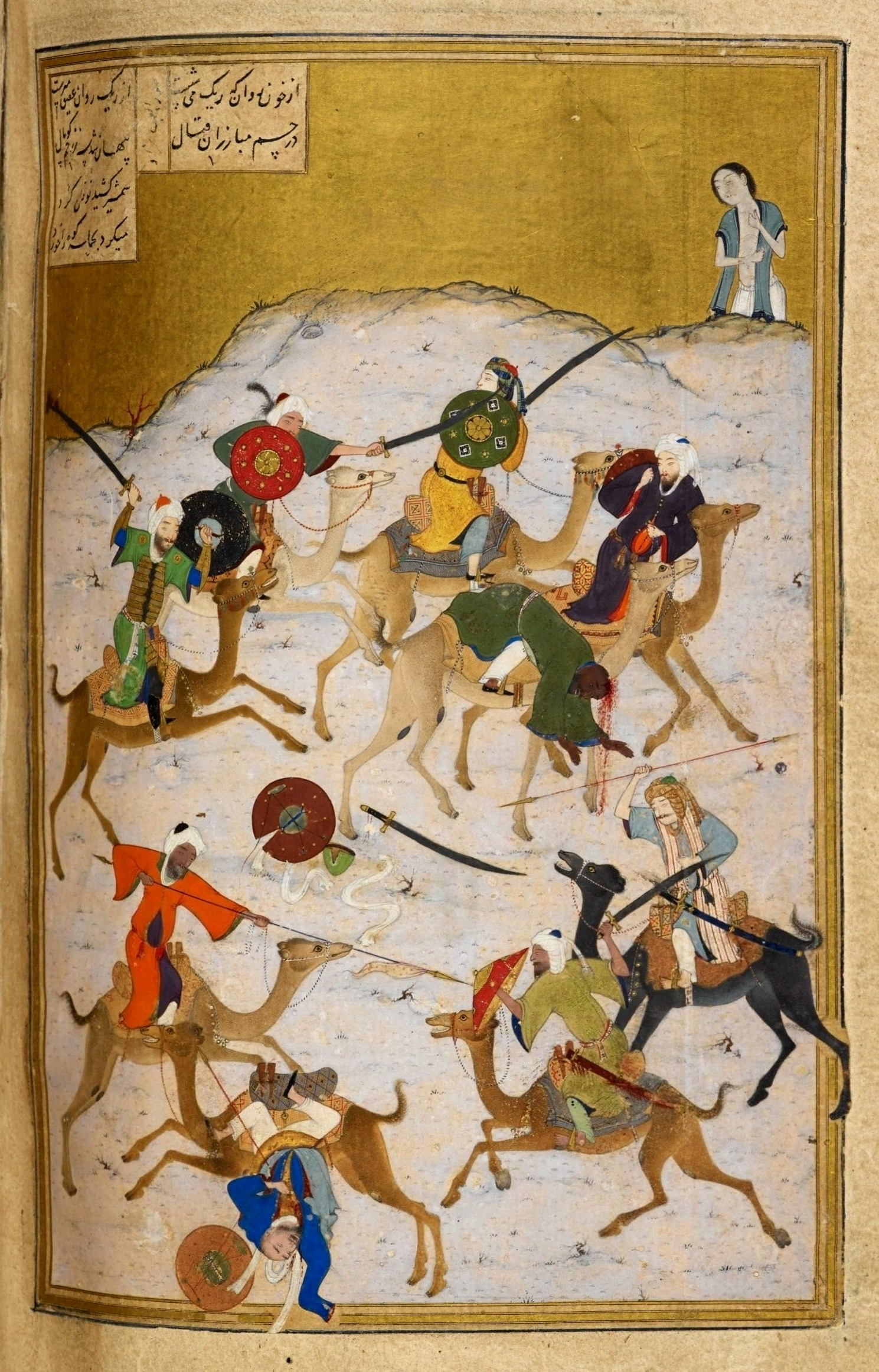 Majnun Watching the Battle of the Tribes, Niẓāmī Ganjavī, Khamsah 1442-3, Add MS 25900, fol.121v, British Library